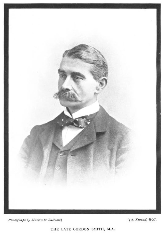 Photograph of Gordon Smith, philatelist.